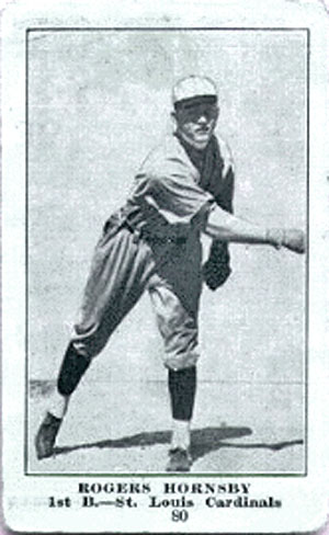 1917 E135 Collins-McCarthy Rogers Hornsby